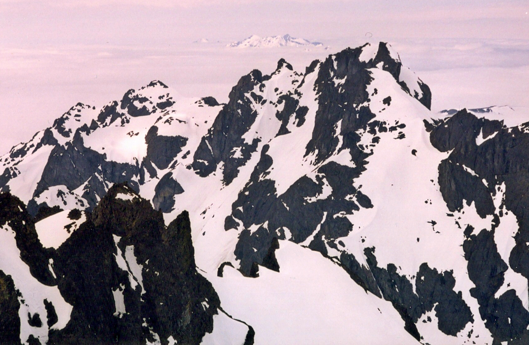 Inner Constance seen from summit of Mount Constance. Olympic Mountains